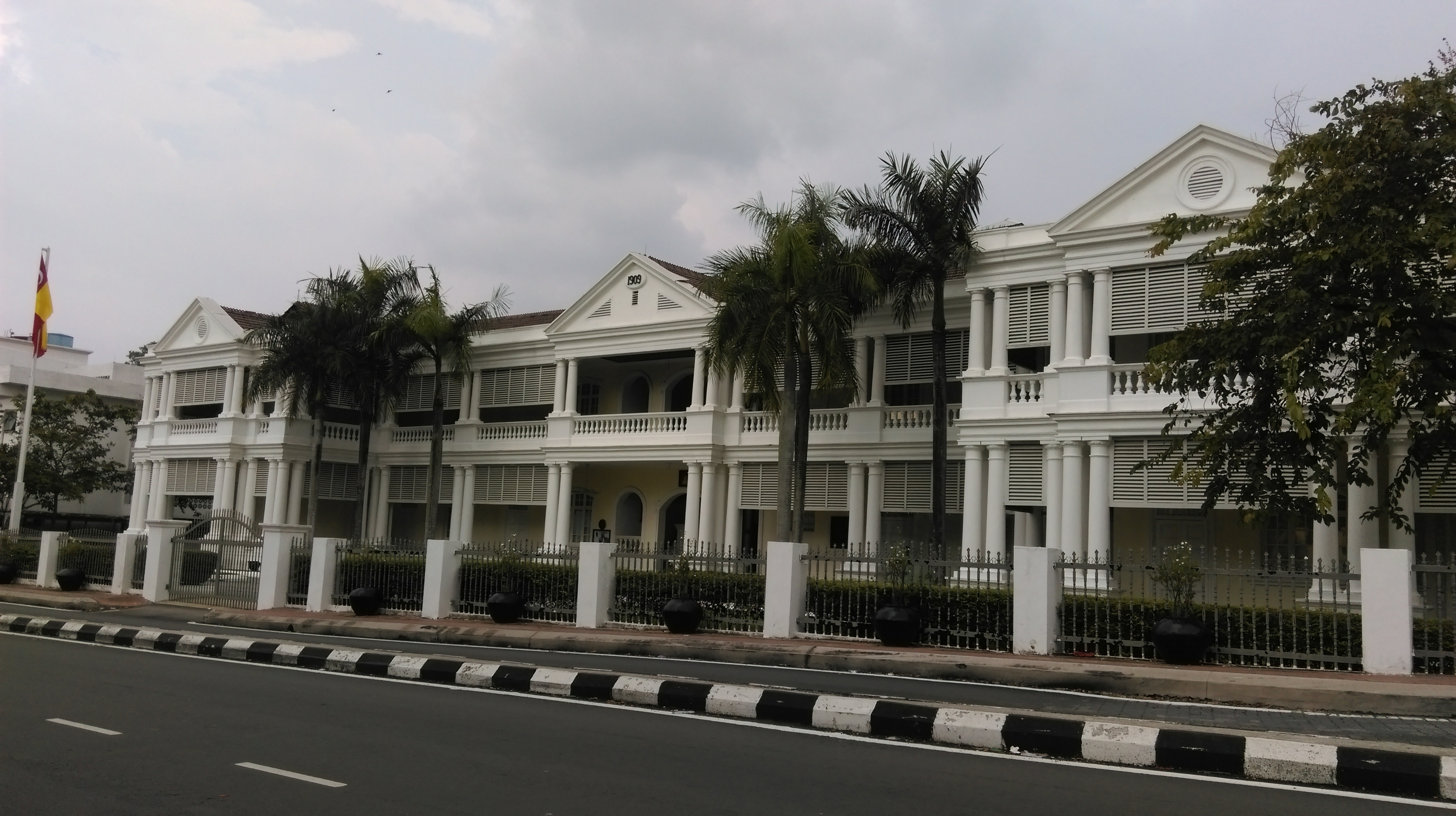 Royal Gallery of Sultan Abdul Aziz, located in Klang.